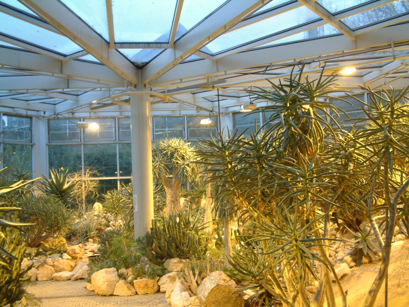 desert house of botanic garden "palmengarten" in frankfurt